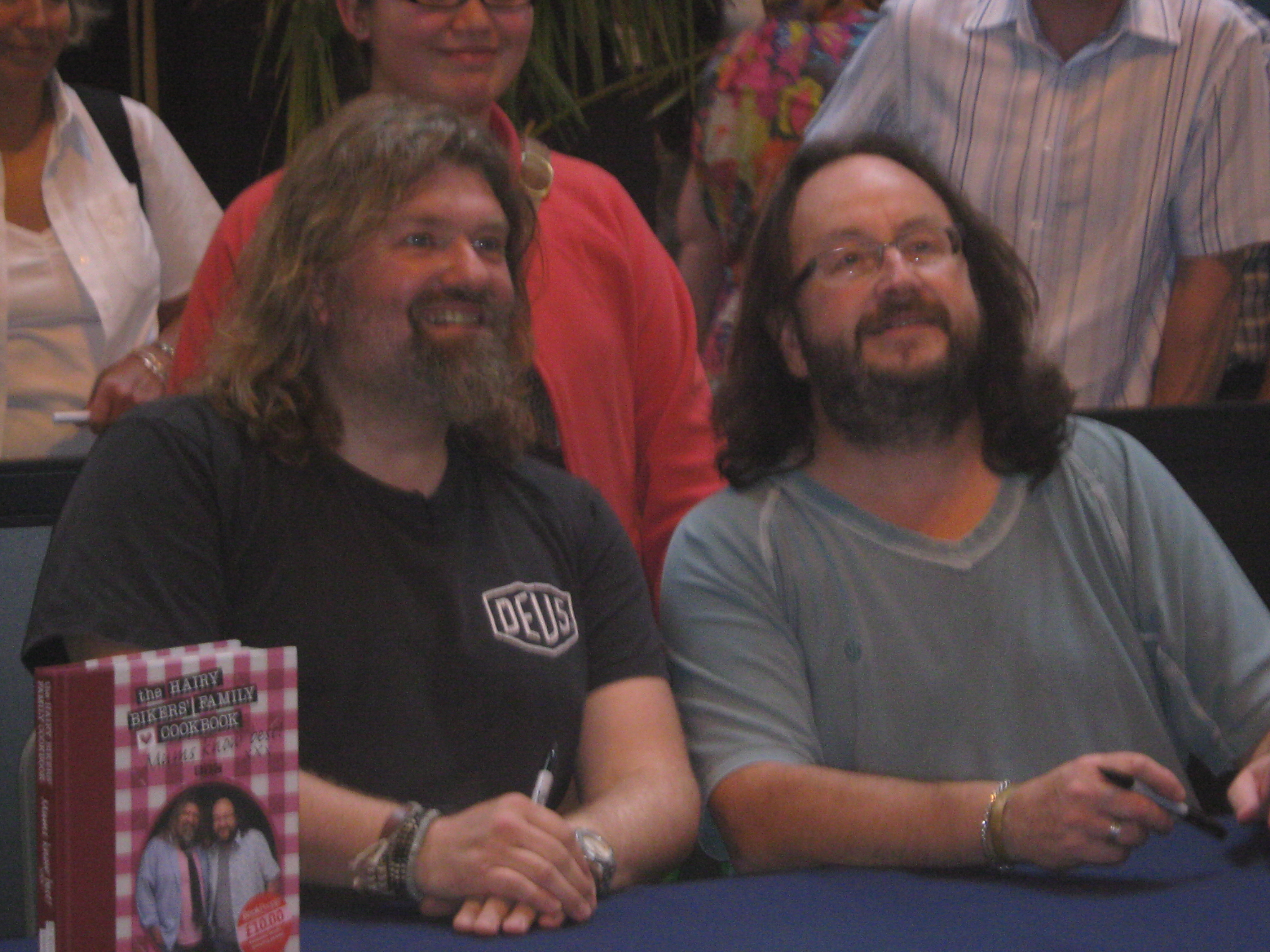 The Hairy Bikers (Dave Myers and Si King) at a Book Signing